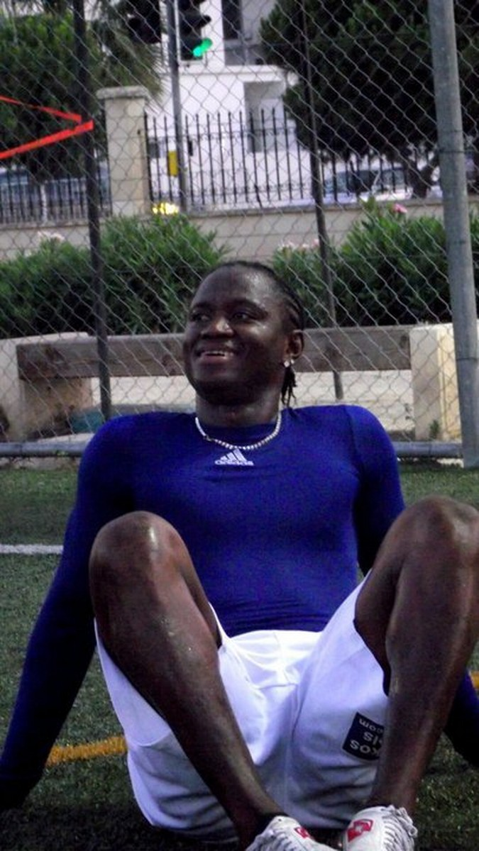 Photo made after football match